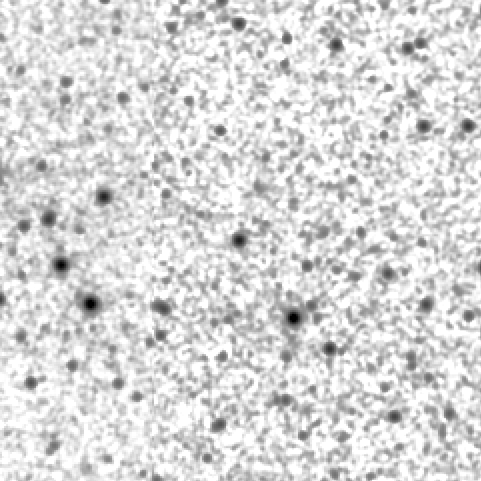 Infrared image of HATS-36